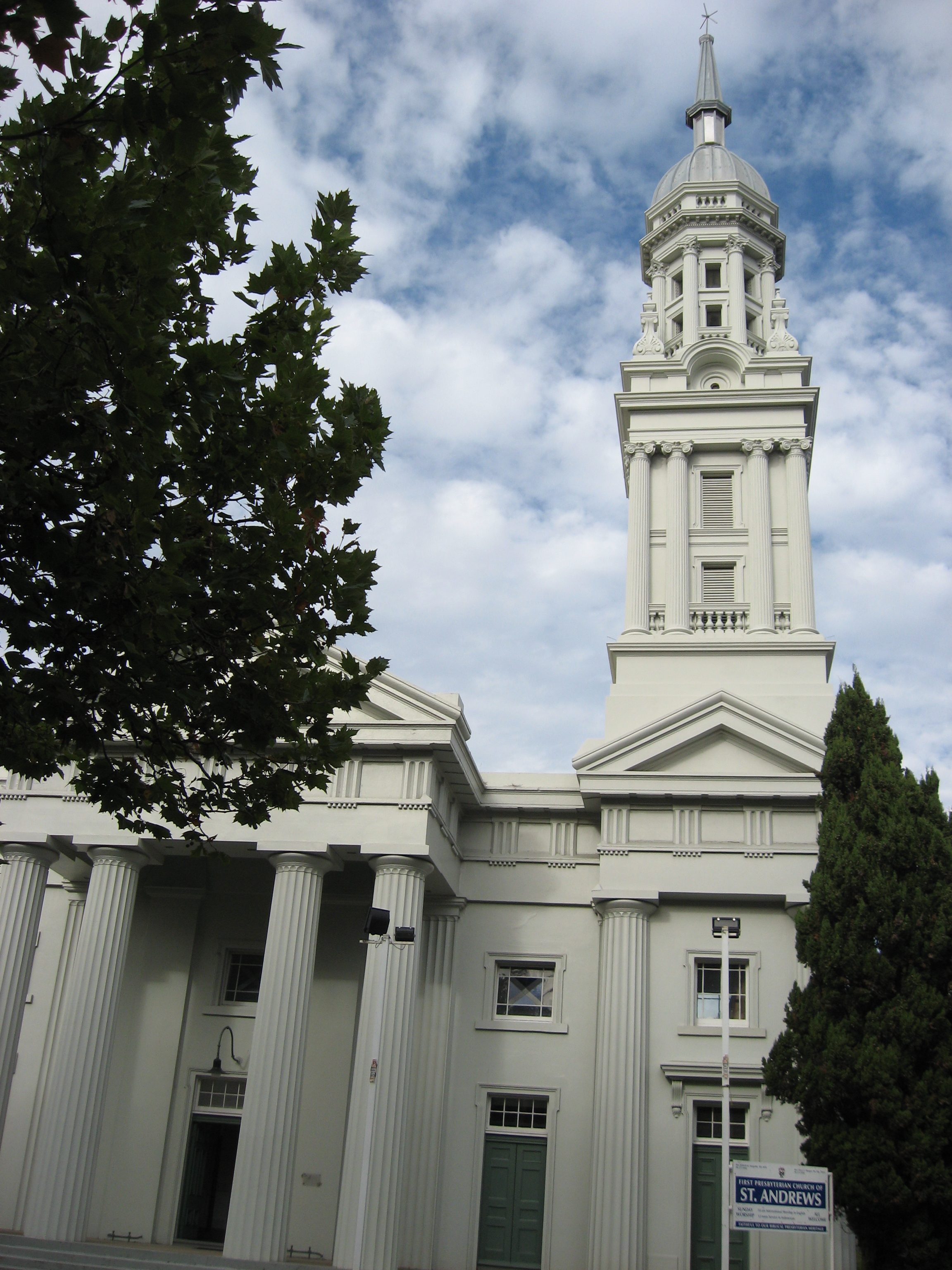 Saint Andrew’s (First) Presbyterian Church, Auckland, a congregation of the Presbyterian Church of Aotearoa New Zealand. New Zealand Historic Places Trust Register number: 20.